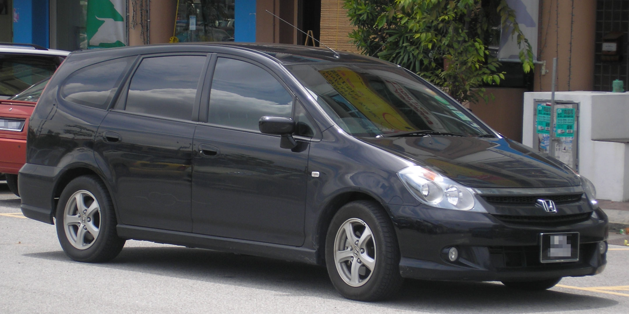 Front-side shot of a first generation, first facelift Honda Stream, in Serdang, Selangor, Malaysia.